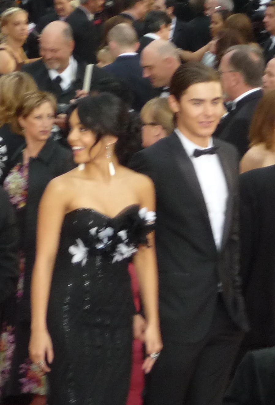 Vanessa Hudgens and Zac Efron at 81st Annual Academy Awards.